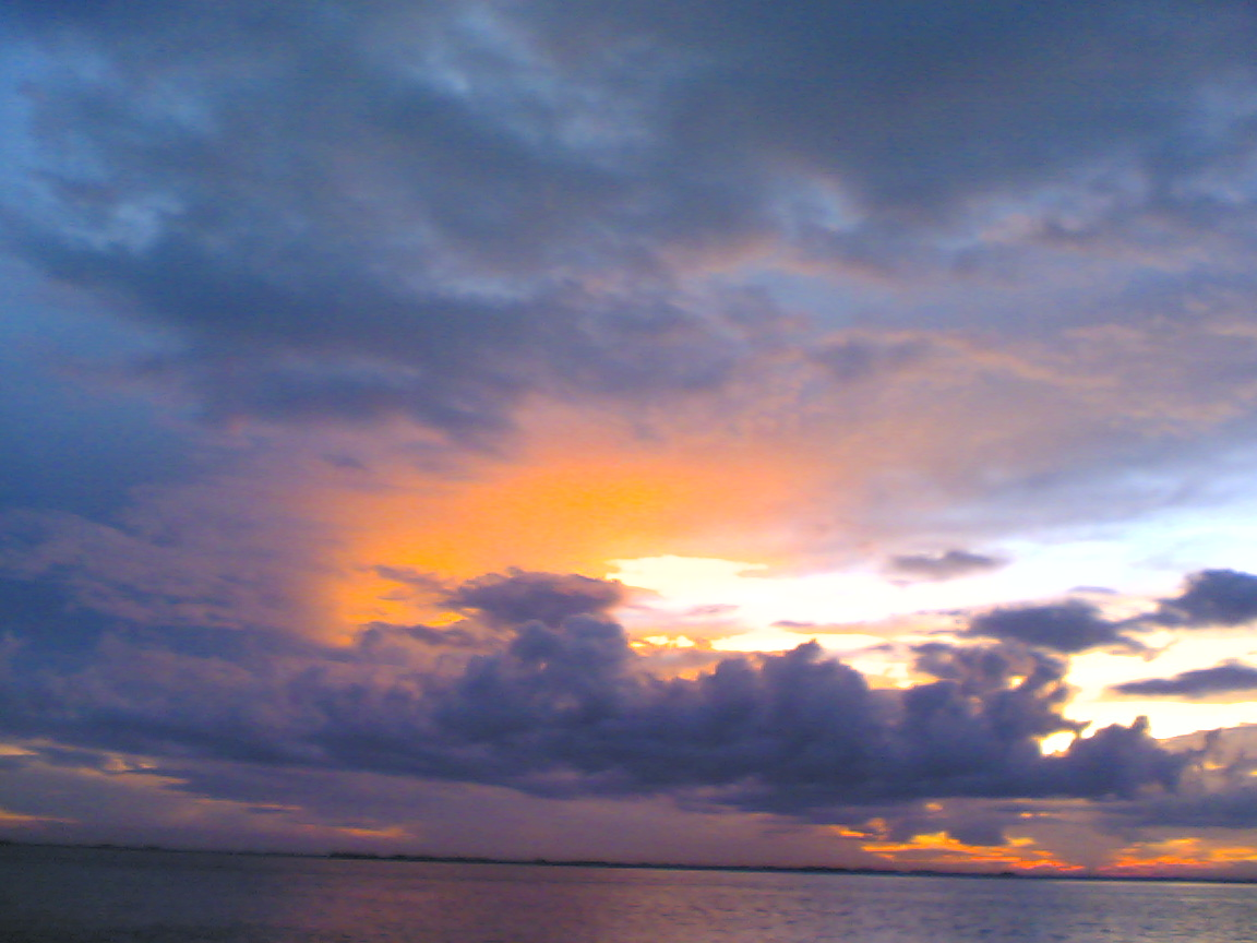 Brahmaputra at sunset ব্রহ্মপুত্রে সূর্যাস্ত